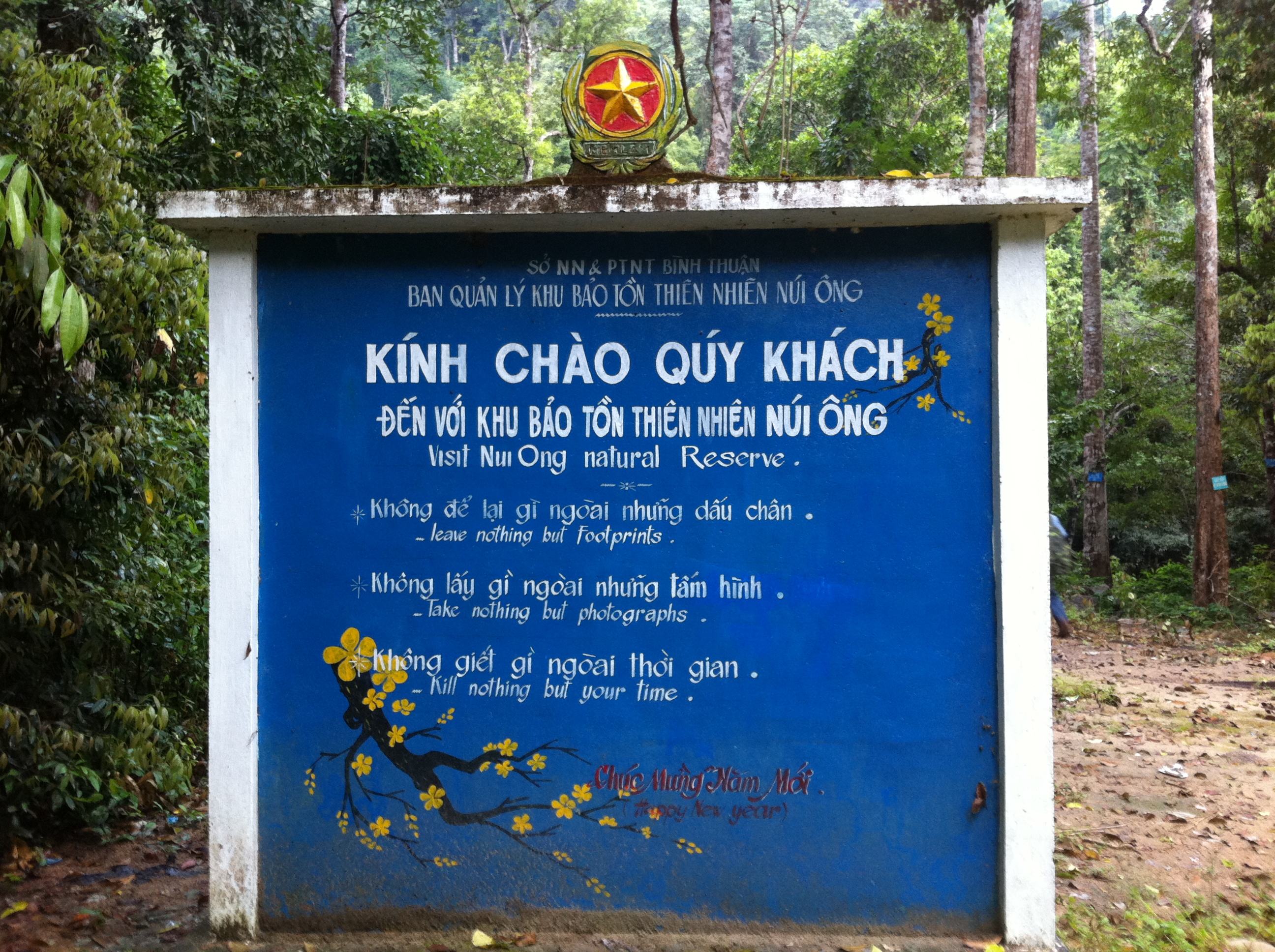 Welcome to Nui Ong bioreserve area